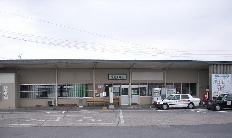 Iwaki-Tanakura Station, Tanagura, Fukushima, Japan in July 2003